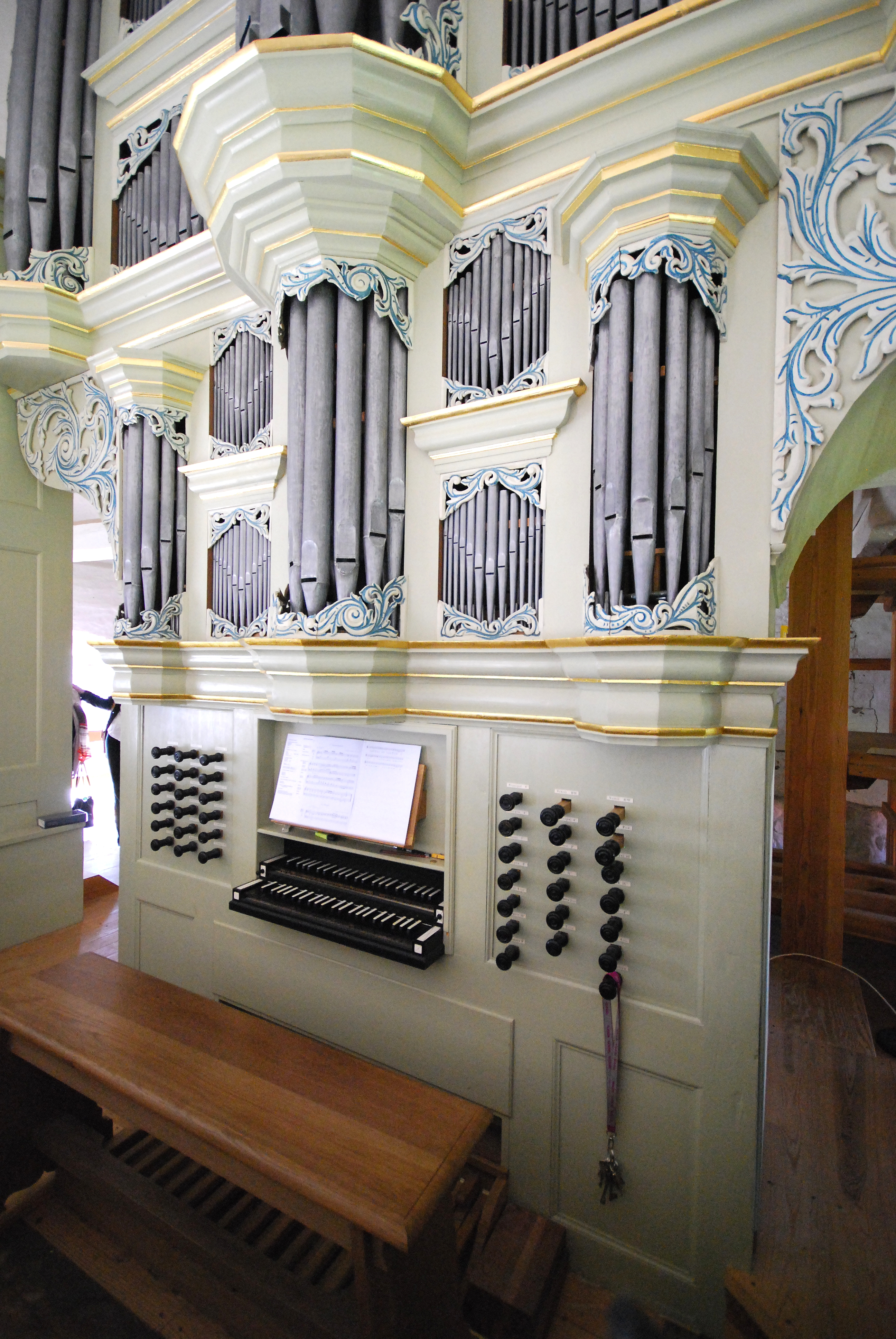 Schnitger organ Mittelnkirchen